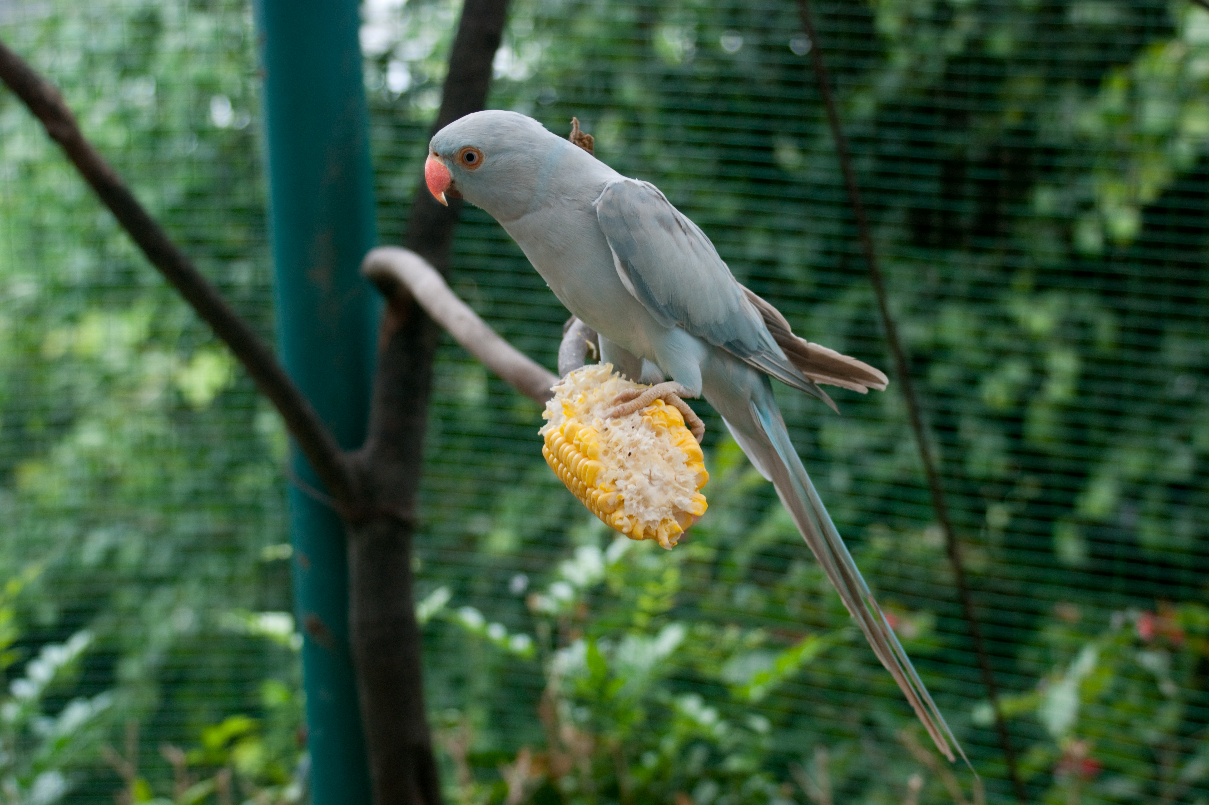 A Rose-ringed Parakeet at Kuala Lumpur Bird Park, Malaysia. It is a colour mutation and appears light blue-grey.